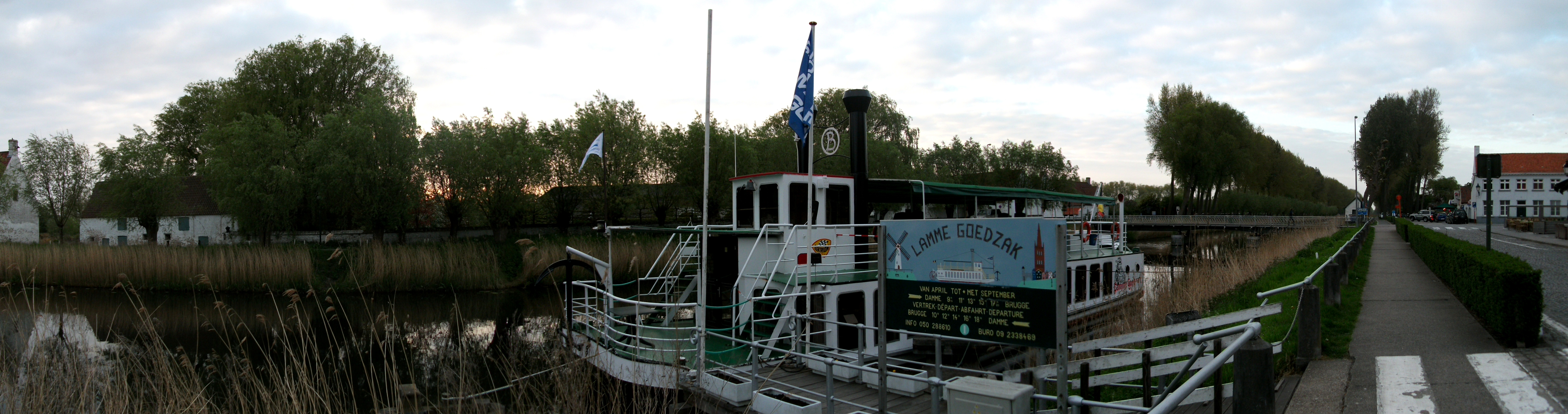 A panoramic photo of the Damse Vaart, with in the middle the tourist boat De Lamme Goedzak, and on the right you can see the centre of Damme beginning.